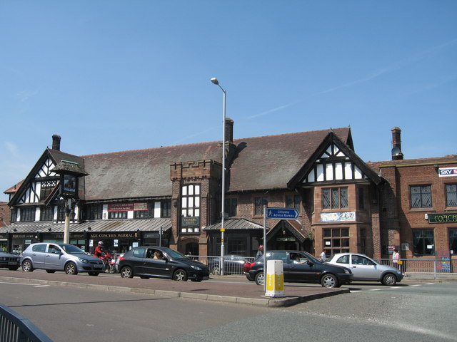 Coach and Horses. The big, bold pub by the busy roundabout that is a bit of a landmark. The youngest of the three public houses in the village, the Coach and Horses dates from the early 1800's, the original building having been knocked down and replaced in 1928.